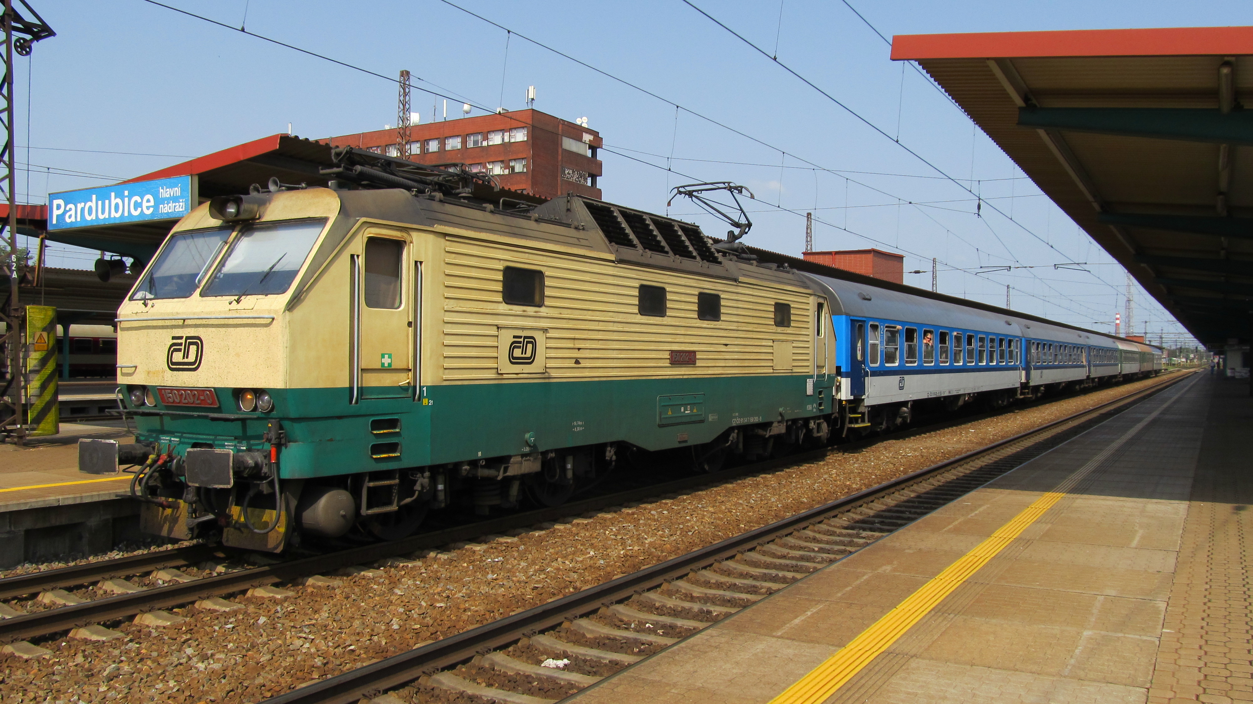 Electric locomotive 150.202-0 of České dráhy headed by joint R 706 Galán at the main train station in Pardubice